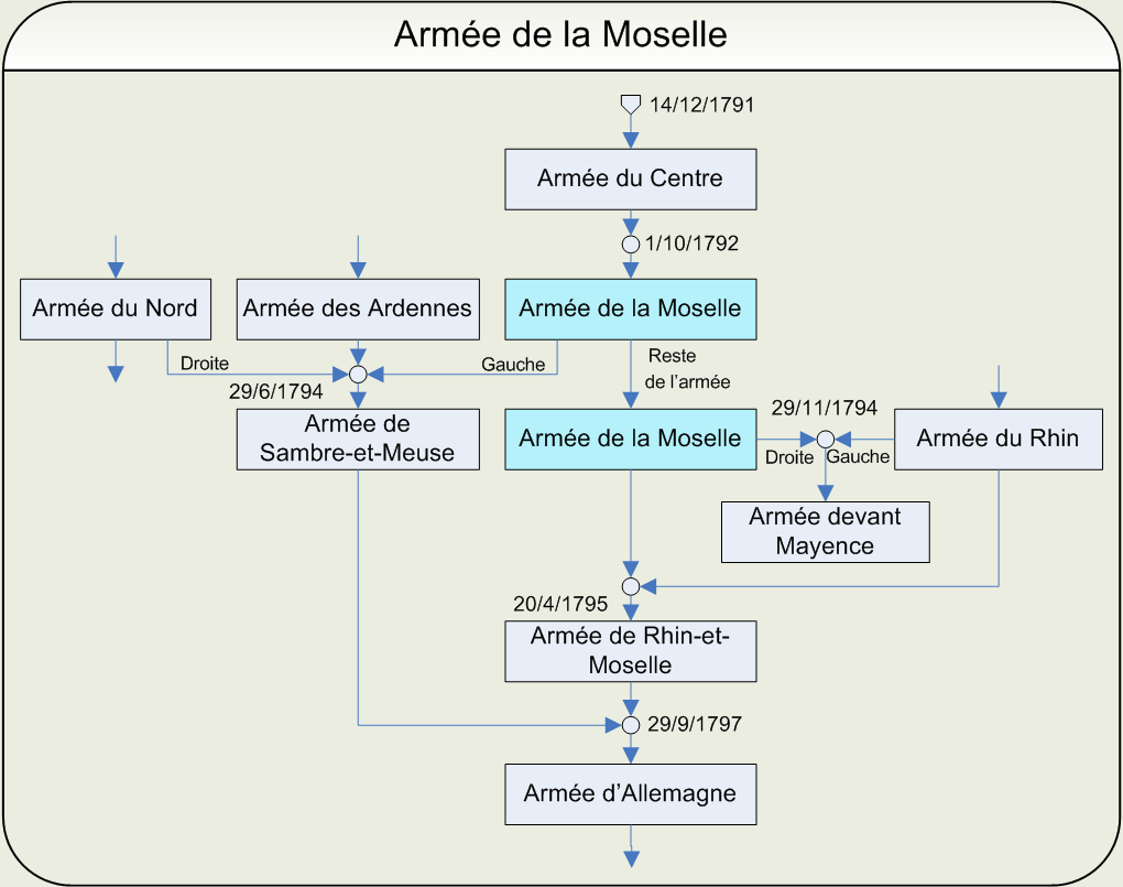 diagram of the Army of the Moselle (War of the First Coalition)